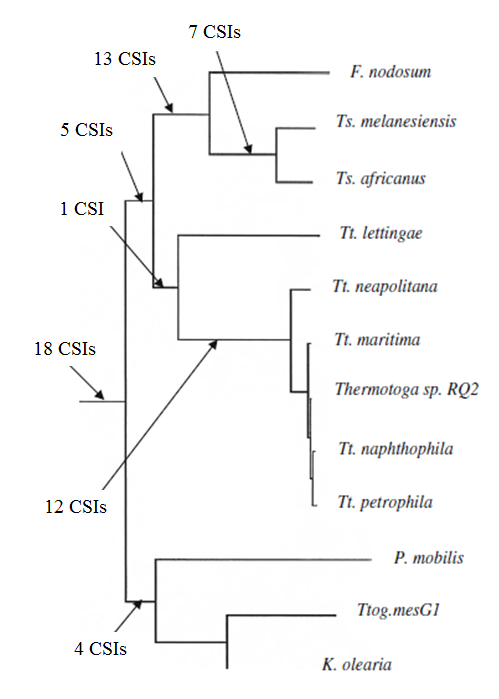 A phylogenetic tree for the group Thermotogae was created using concatenated sequences of highly conserved proteins. The conserved singature indels (CSIs) that support the branching order are shown